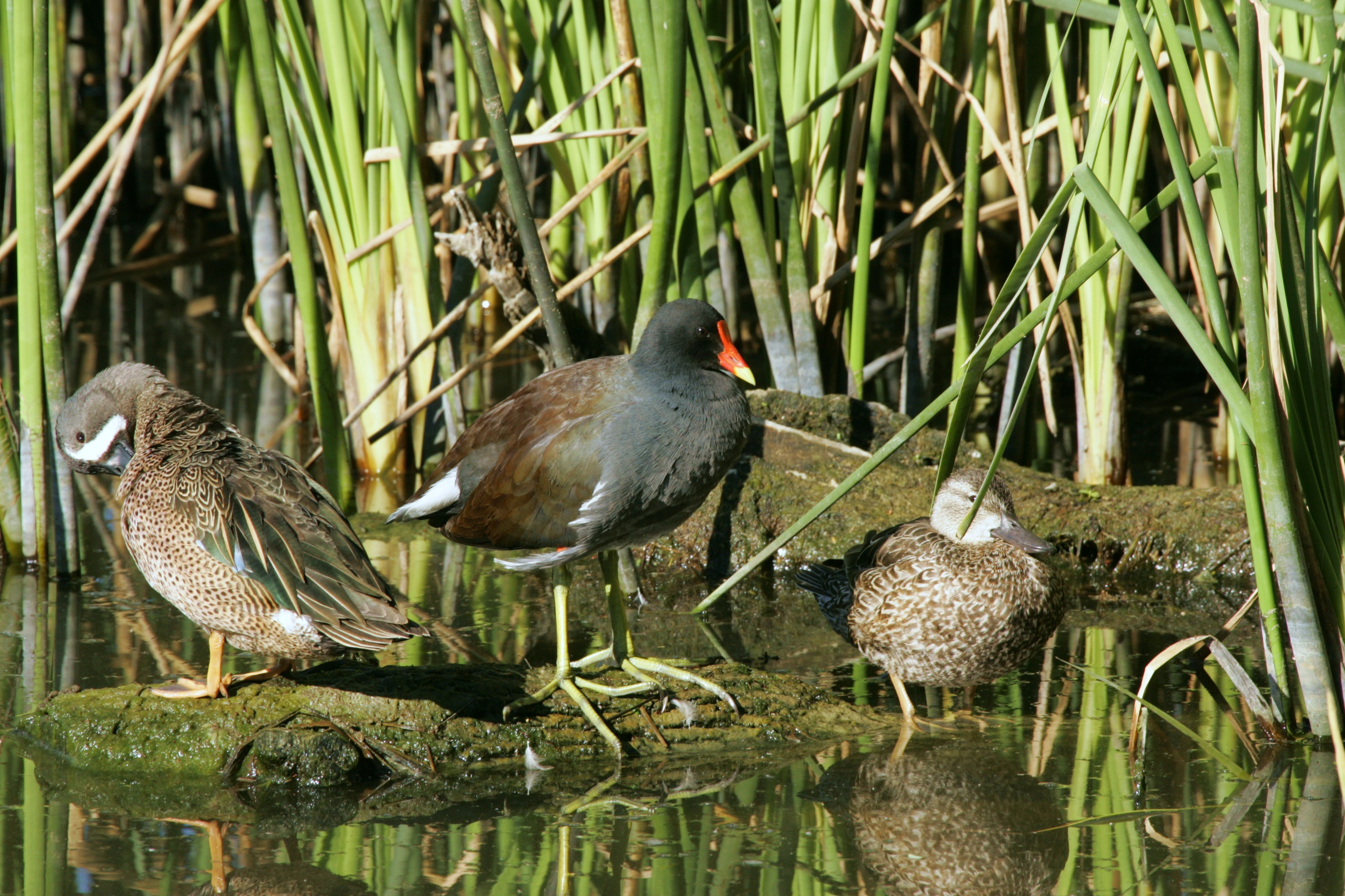 Gallinula galeata and Anas discors At the Santa Ana National Wildlife Refuge, in Hidalgo County, South Texas. [1]